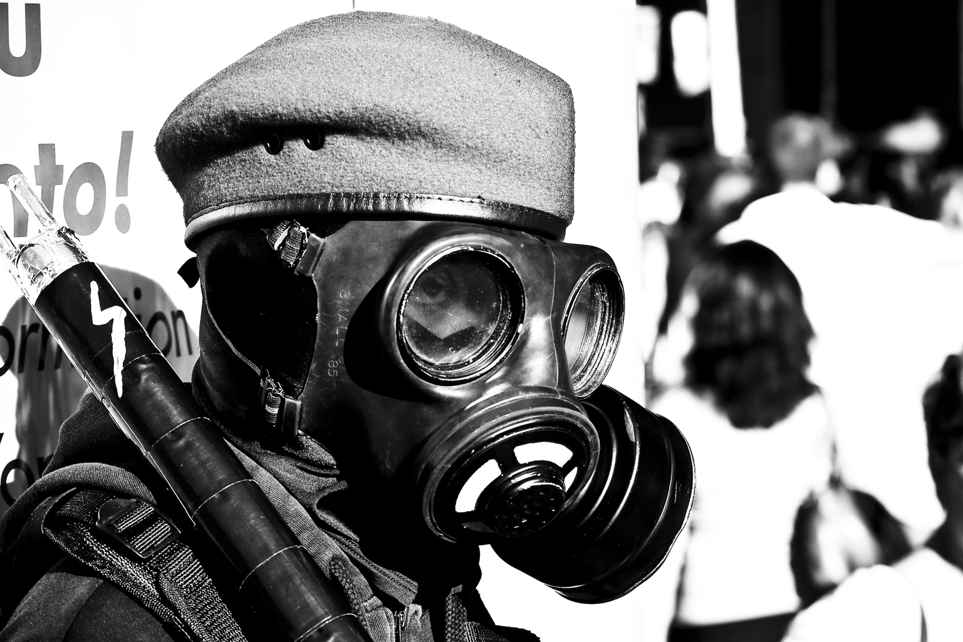 The Toronto Zombie Walk "Special Director's Cut Edition" at the Toronto International Film Festival, 2009.